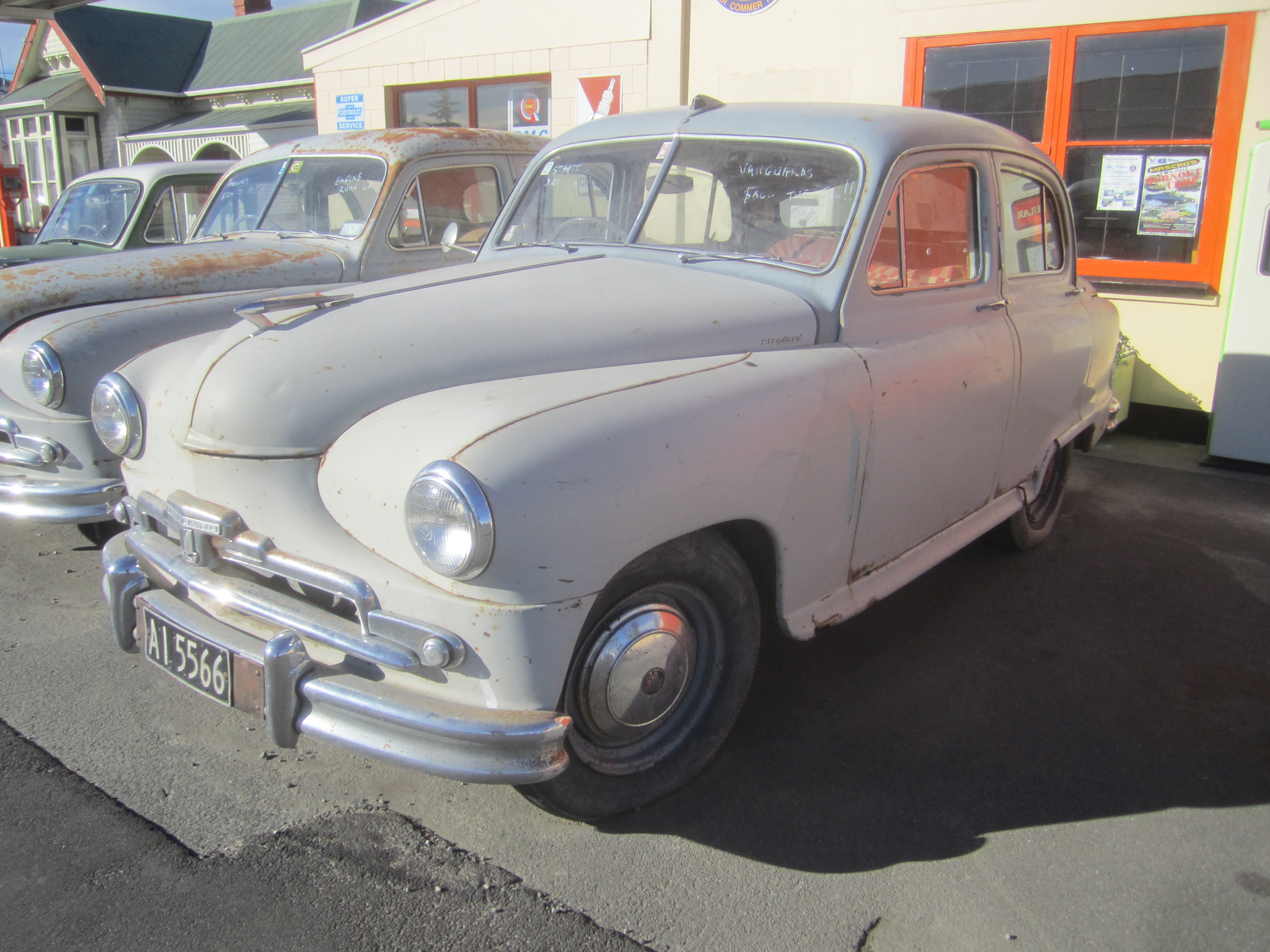 The Phase I was built from 1947-53 and the Phase II from 1953-55 Available in Saloon, Estate and the Australian Utility. In 1952, the Phase I got an update; the Phase 1b, the bonnet came lower and it got a more open grille and a wider rear window, it still had the beetle back whereas the Phase 2 had a similar front end as the Phase 1b, but a notch back rear end. Engine; 2088cc 4 cyl petrol or 2092cc 4 cyl diesel